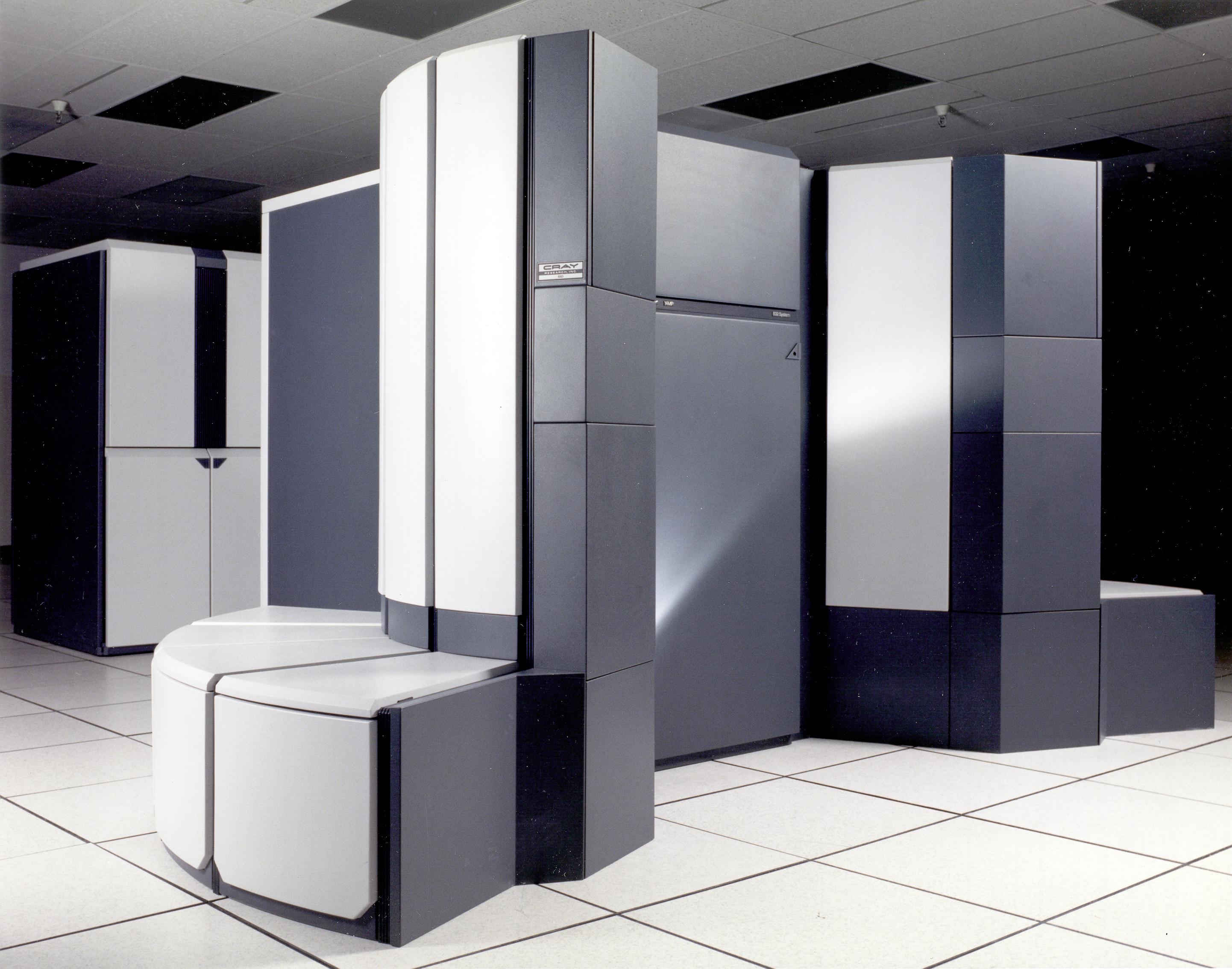 The Cray Y 190A Supercomputer at the NASA Ames Research Center, Mountain View, California.